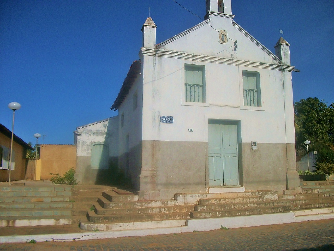 The small church of St. Felix was constructed from a gift received by a devotee of the saint. has almost 150 years and is well conserved.